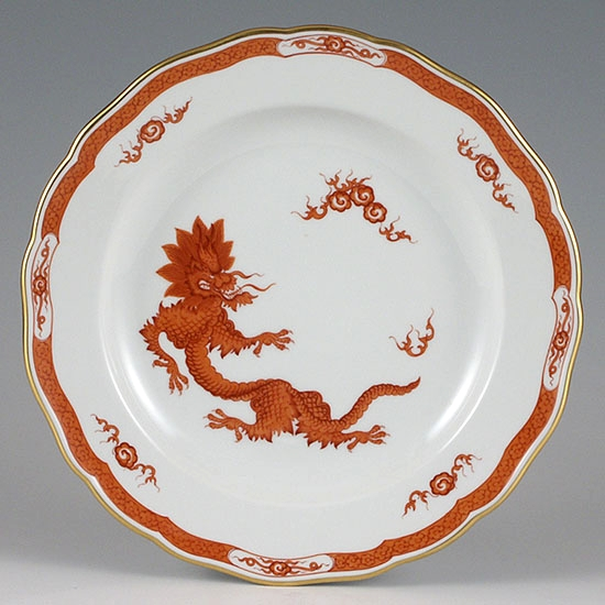 Plate, Ming Dragon light with border, red